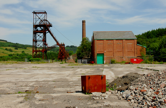 The former Cefn Coed Colliery (now a Museum) The winding gear of the Cefn Coed Colliery at Crynant in the Dulais Valley viewed from the site of the former Blaenant Colliery.